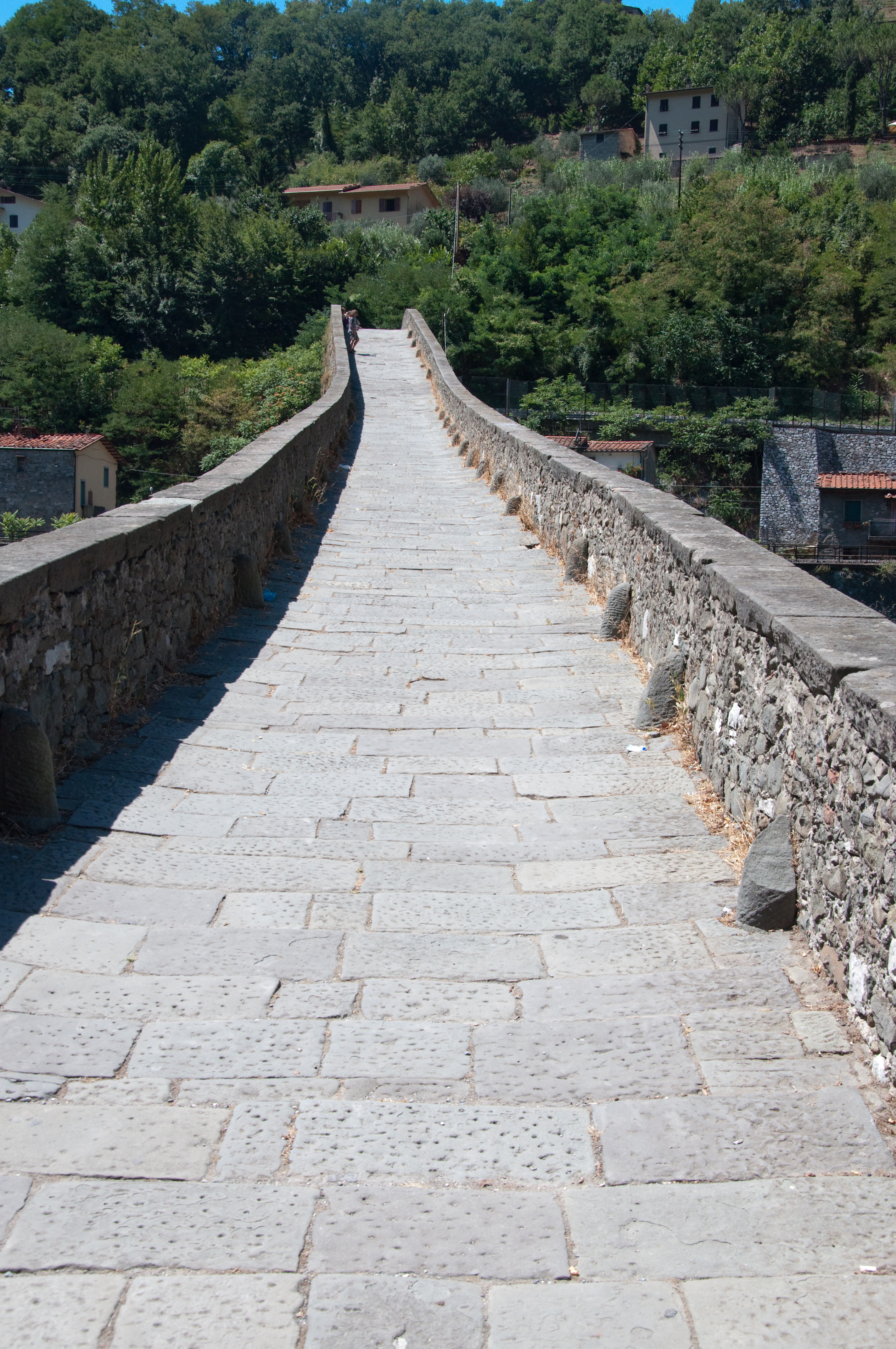 Ponte della Maddalena (Bridge of Mary Magdalene), also called Ponte del Diavolo (devil's bridge), a medieval bridge crossing Italian river Serchio